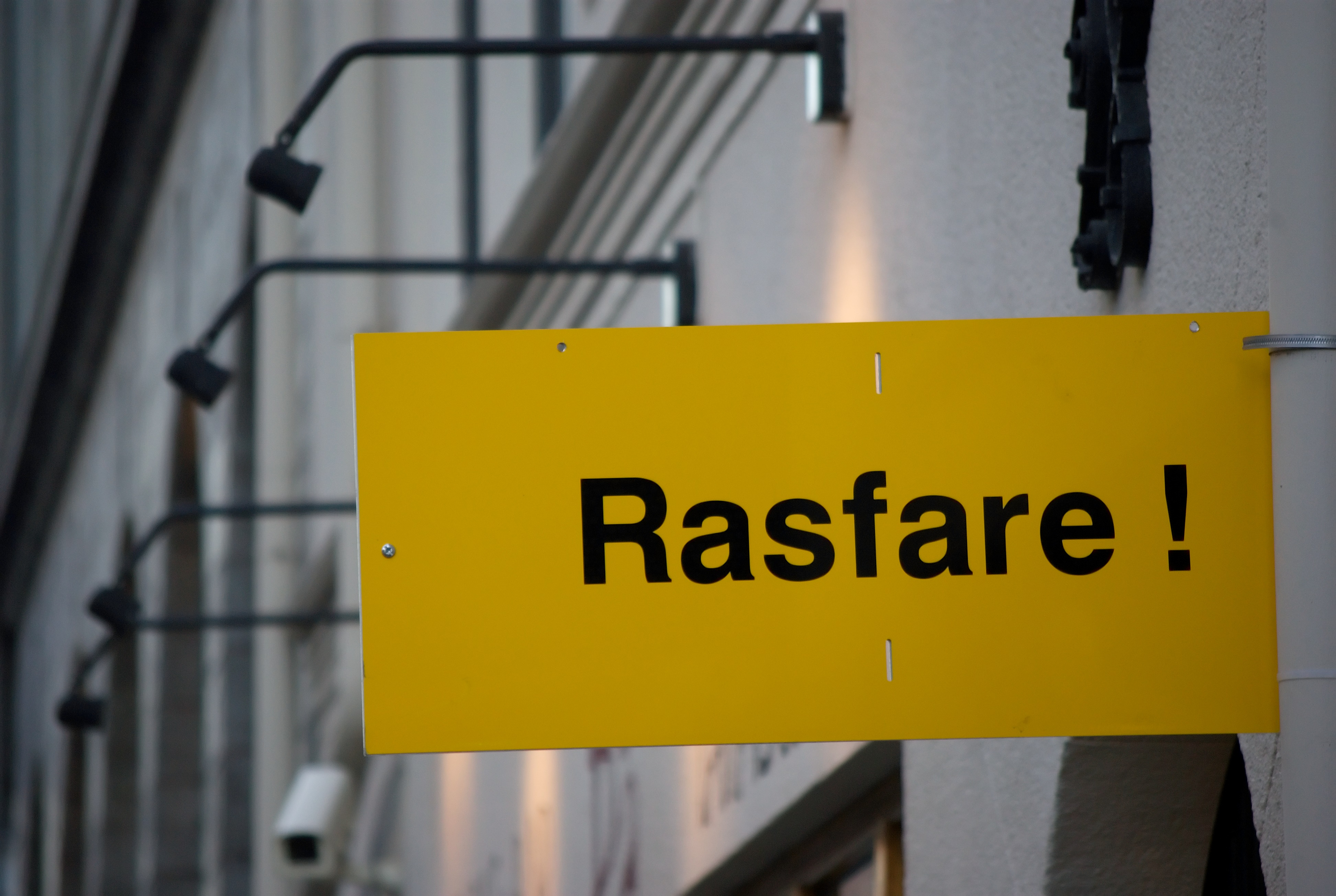 Snow might fall off this building.